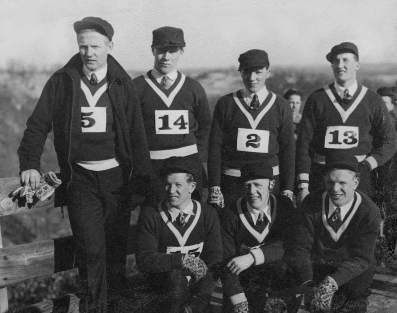 Norwegian ski jumpers at the 1932 Olympics in Lake Placid. Back from the left: Hans Kleppen, Hans Beck, Sverre Kolterud, Reidar Andersen. Front from the left: Birger Ruud, Kaare Wahlberg, Sigmund Ruud.